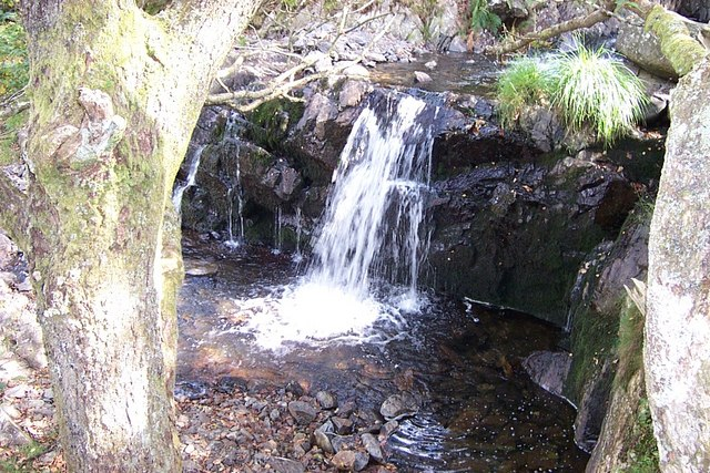 Waterfall near Klondyke Lead Mine Ruins. This little waterfall on an un-named river whose source is Llyn Geirionydd is at grid reference SH 76547 62210.The river merges with the Afon Crafnant a little further downstream.